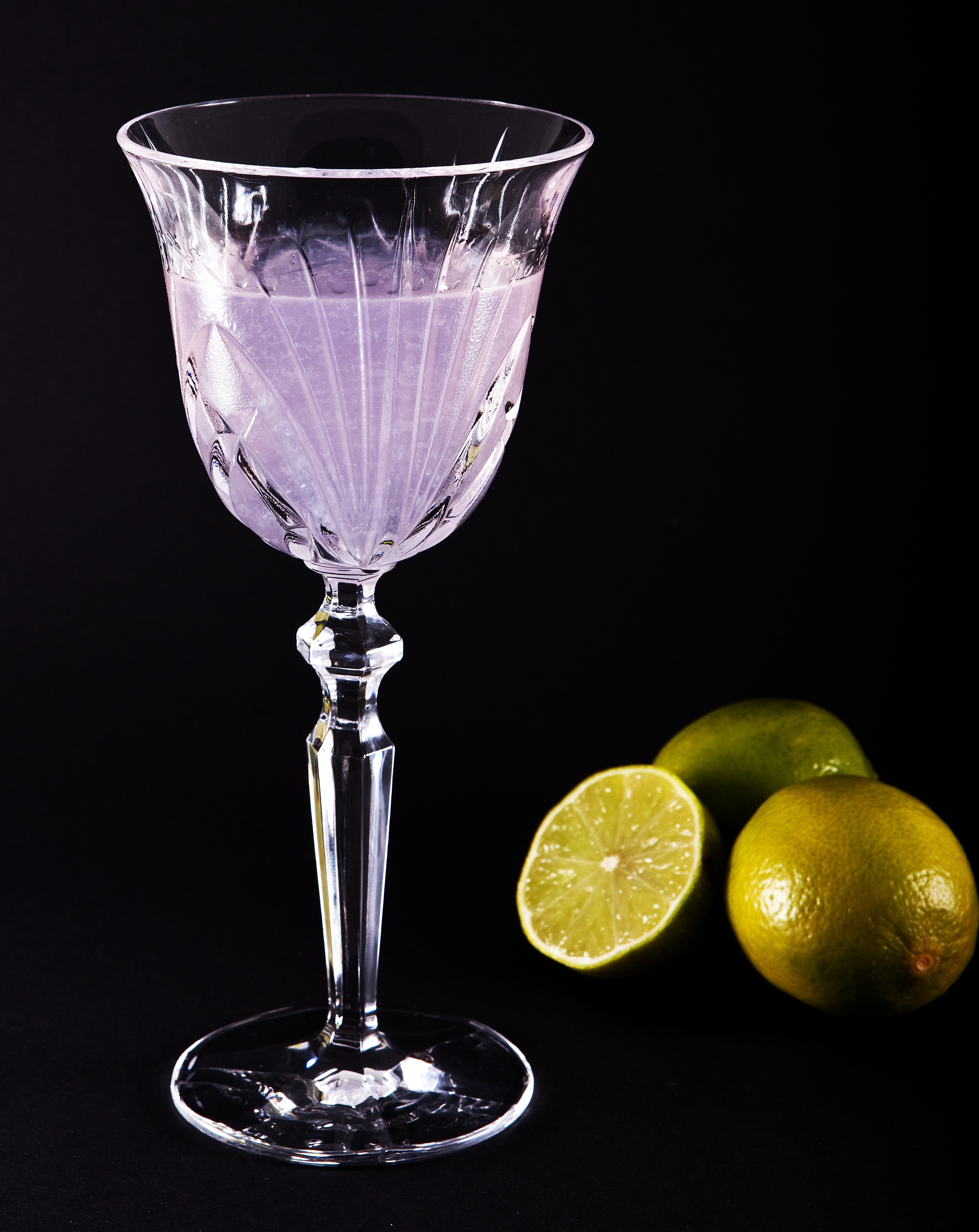 Aviation Cocktail